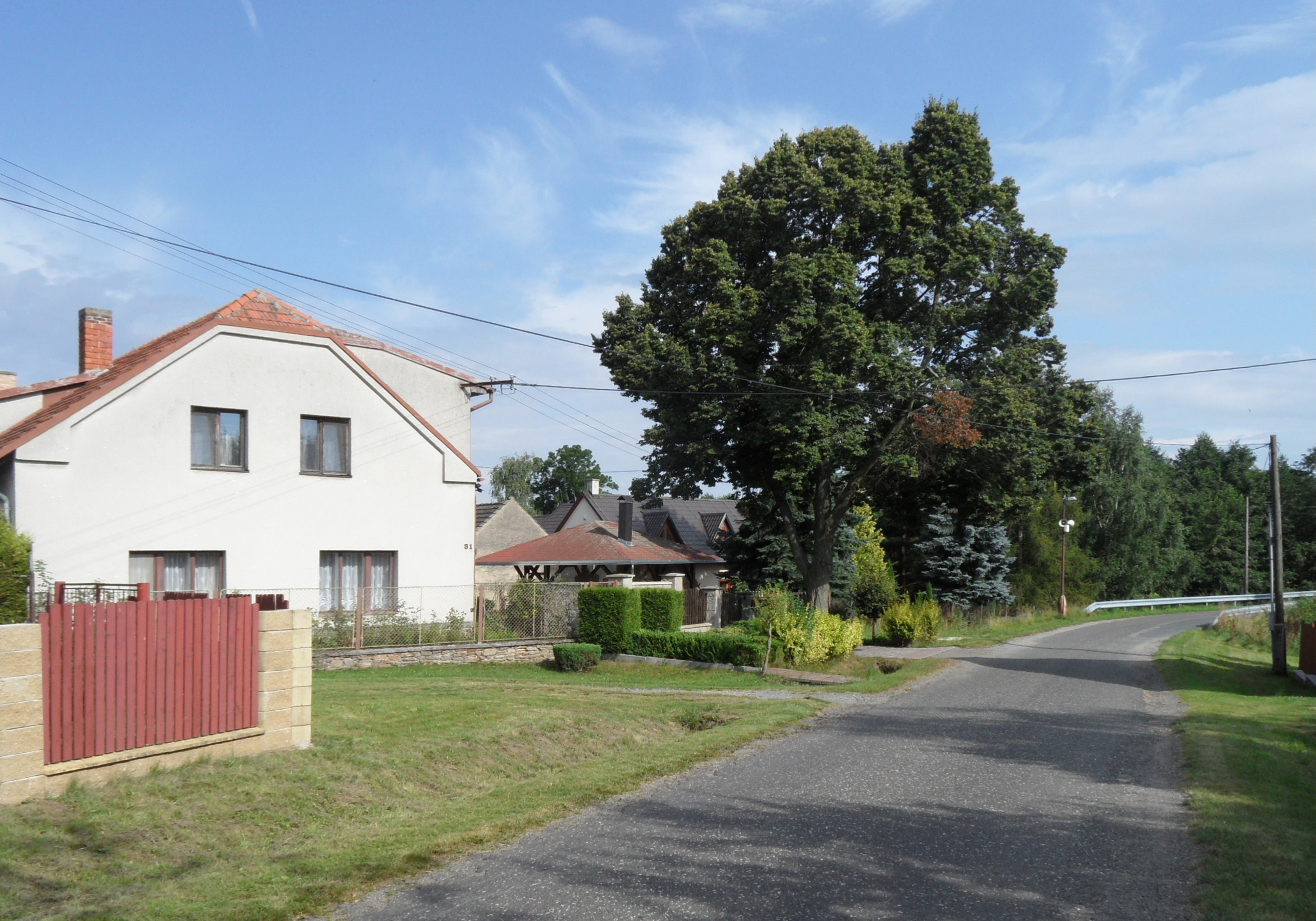 Albrechtice (Malešov) E. Houses near Bend with Trees, Kutná Hora District, the Czech Republic.